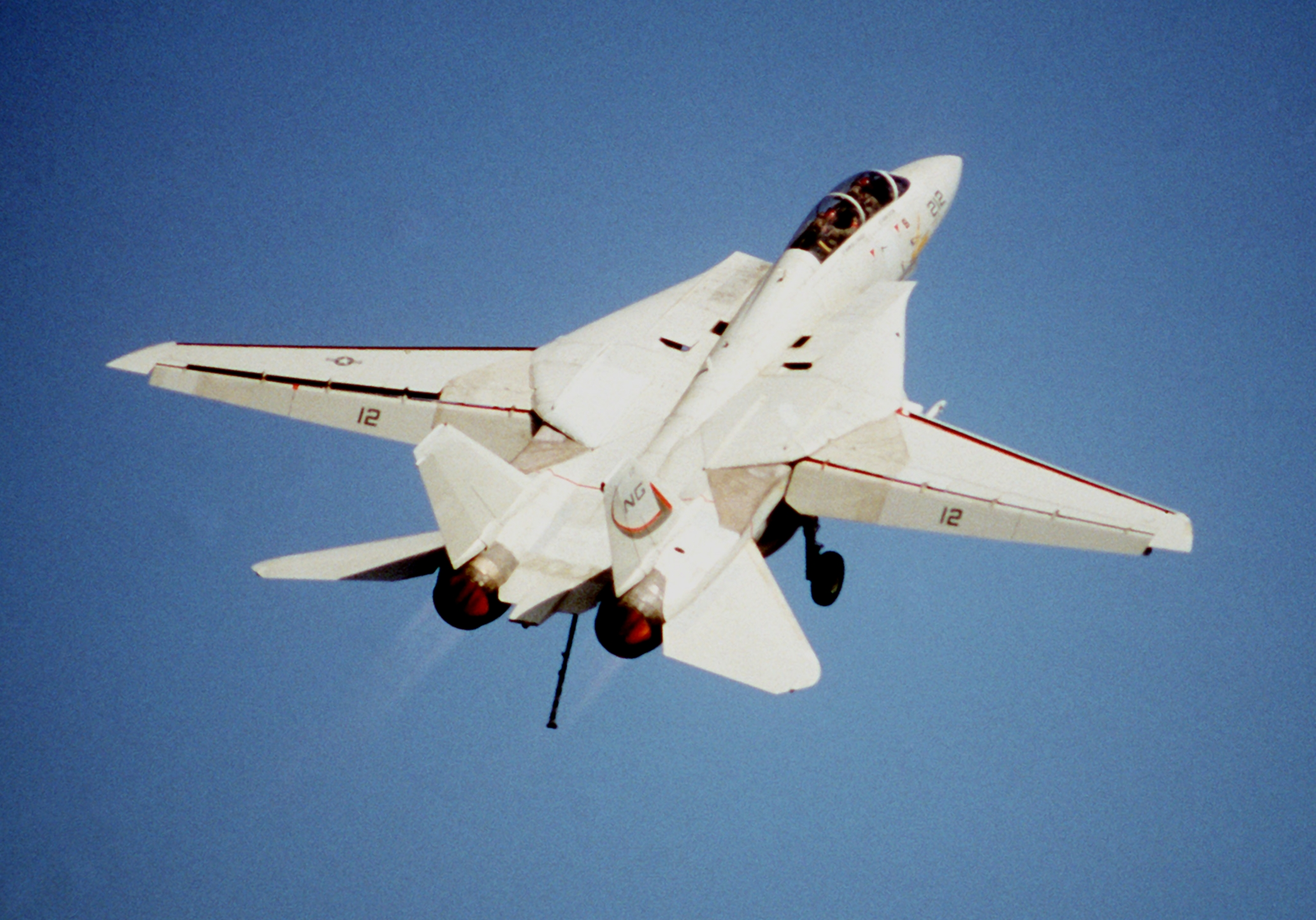 A U.S. Navy Grumman F-14A-105-GR Tomcat (BuNo 160887) from Fighter Squadron 24 (VF-24) "Fighting Renegades" just after take-off from the aircraft carrier USS Constellation (CV-64) on 10 February 1982. VF-24 was assigned to Carrier Air Wing 9 (CVW-9) aboard the Constellation for a deployment to the Western Pacific and the Indian Ocean from 20 October 1981 to 23 May 1982.